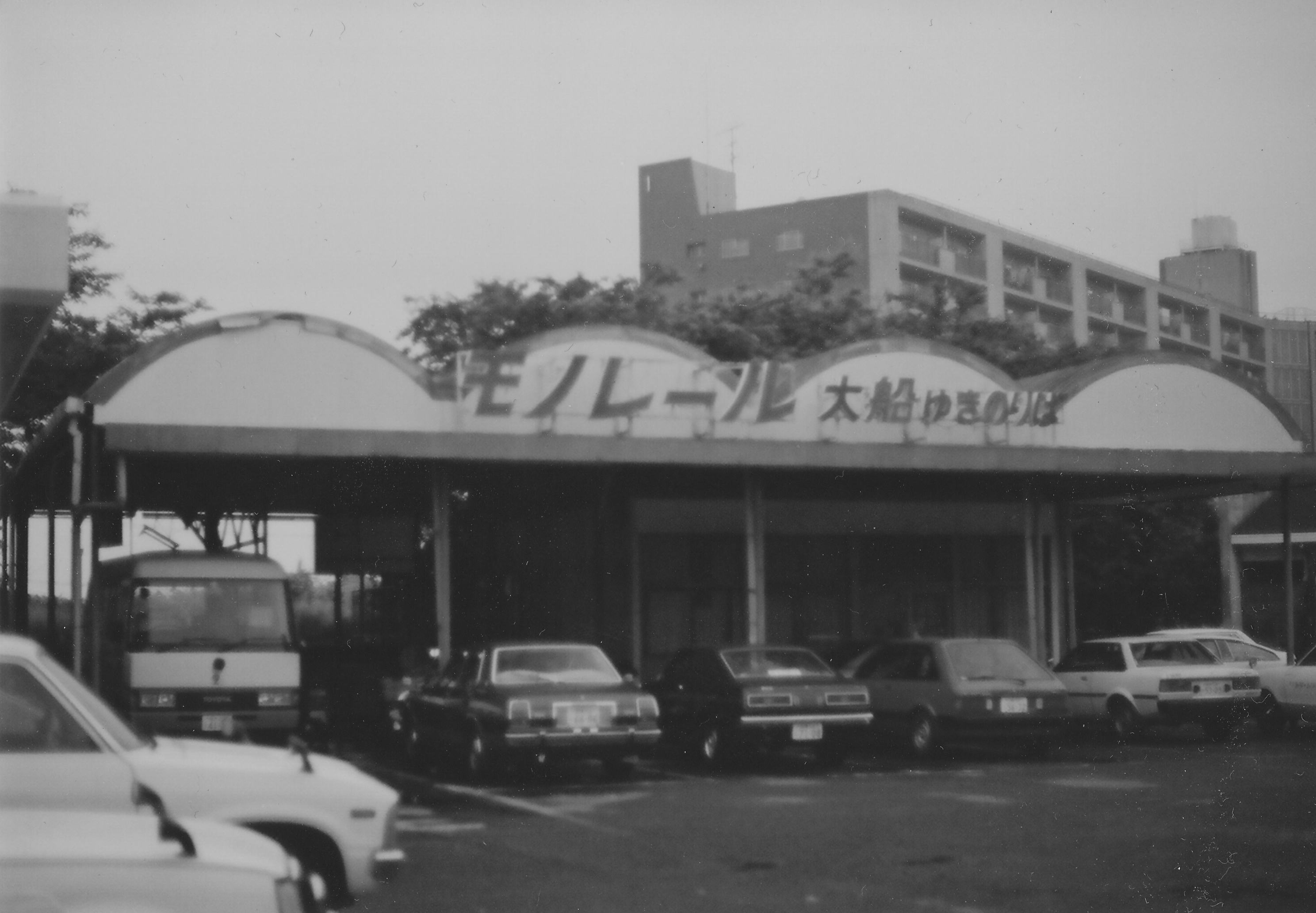 Dream Trafic Monorail Dreamland Station